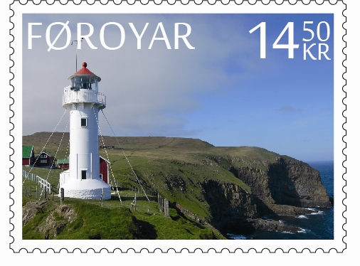 Faroese stamp with Erik Christensens photo from Lighthouse Akraberg, Suðuroy, Faroe Islands In 1909 the Lighthouse Service built the iconic Akraberg lighthouse on the southern tip of Suðuroy. The waters south of Sumba are notorious for their unpredictability. Here lies a series of rocky skerries below and above sea level, and the meeting of currents, together with wind and weather, create dangerous conditions for boats and ships. The situation became more hazardous in 1884 when the high cliff "Munkurin" on the southernmost rock, Sumbiarsteinur, crashed into the sea and the seafarers lost the fixed landmark of the rocks.